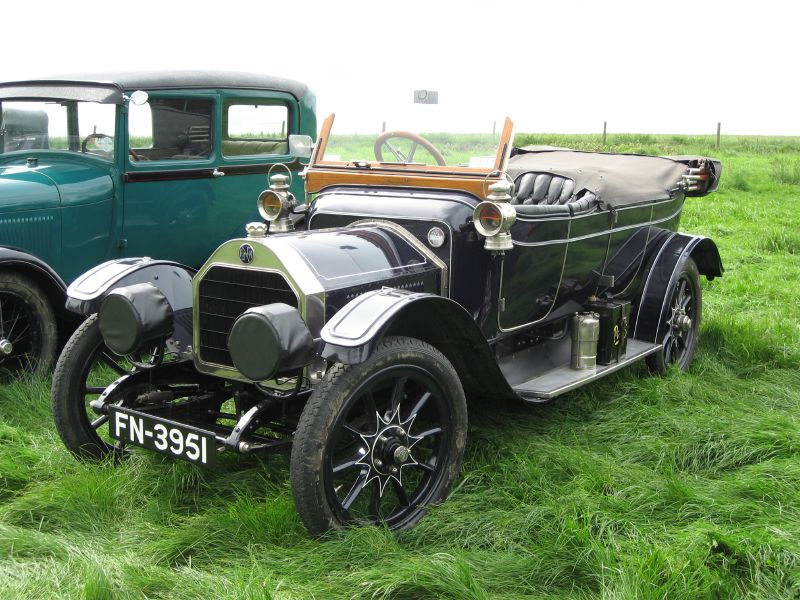 about 1910 FN 4-door tourer Crofton 2006